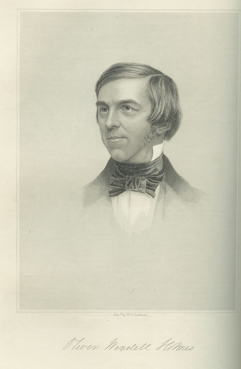 Oliver Wendell Holmes (1809–1894), American physician and writer